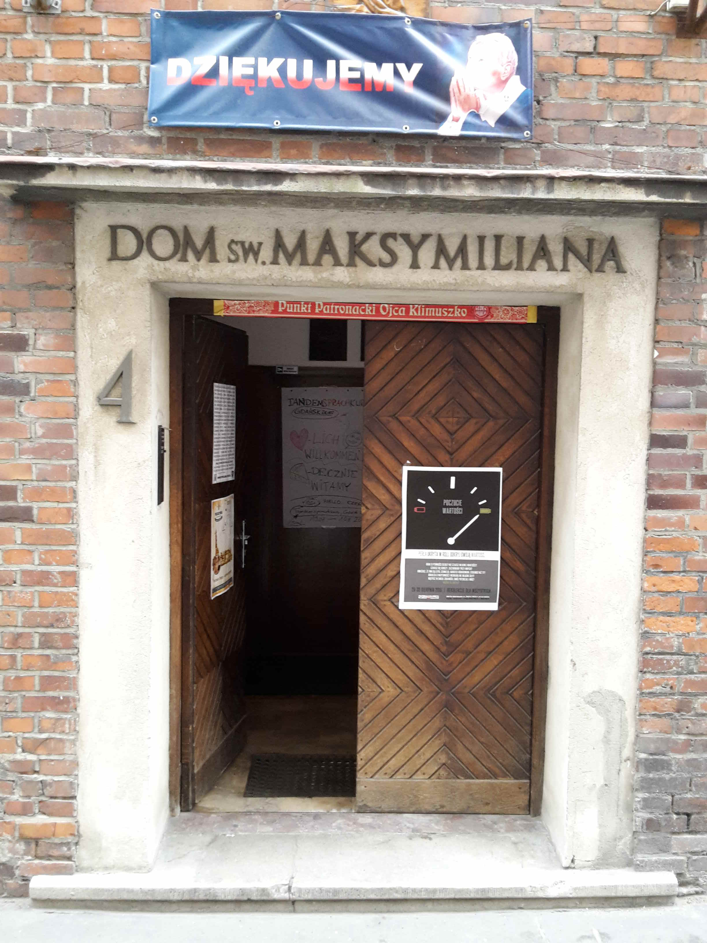 Entrance of Maximilian-Kolbe-Center in Gdansk/Poland